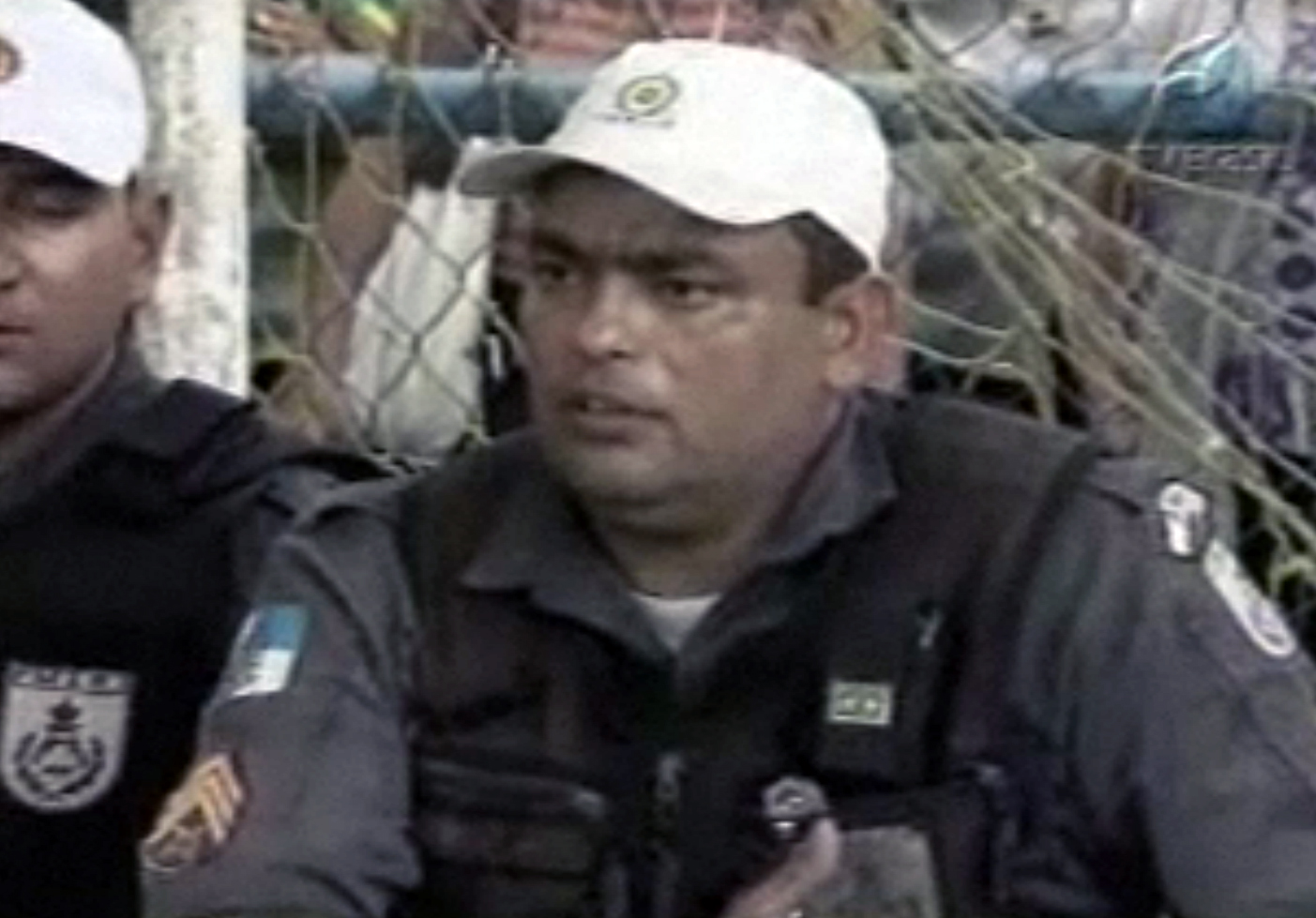 Sergeant Márcio Alves being interviewed in the gymnasium of the Tasso da Silveira Municipal School on the day of the massacre of many students. Alves is the man who shot Wellington Menezes, the perpetrator. The frame is from a news report by the news agency Repórter Brasil.